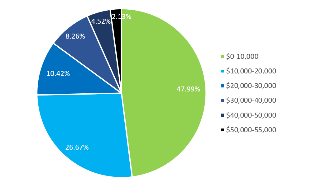 Distribution of college tuition, 2017-2018; pie segments = percentage of schools; data